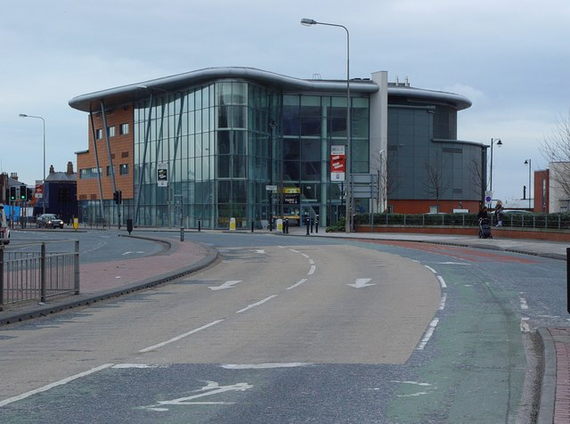 The Horncastle Building, Hull College, Hull, East Riding of Yorkshire, England.This building is visually interesting, and strikingly positioned on a major route (A165) through to East Hull.